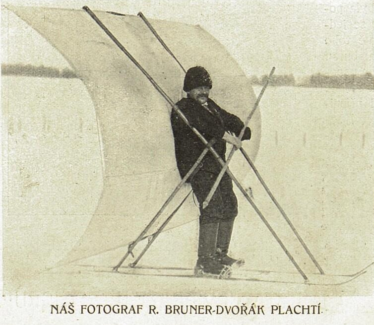 Rudolf Bruner-Dvořák, Czech photographer, 1905